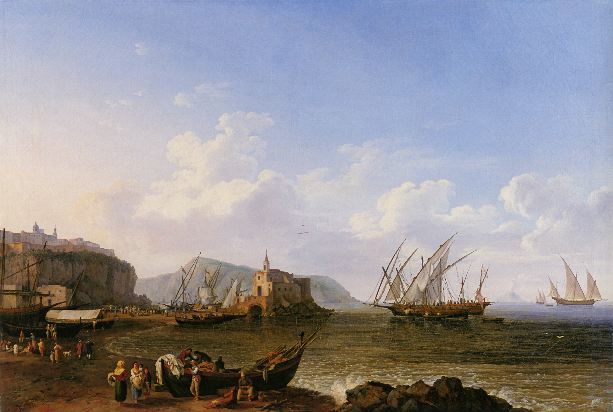 Jacob Philipp Hackert, View of Lipari and Stromboli (1778), oil on canvas, 116 x 168 cm, Staatliches Museum Zarskoje Selo bei St. Petersburg.